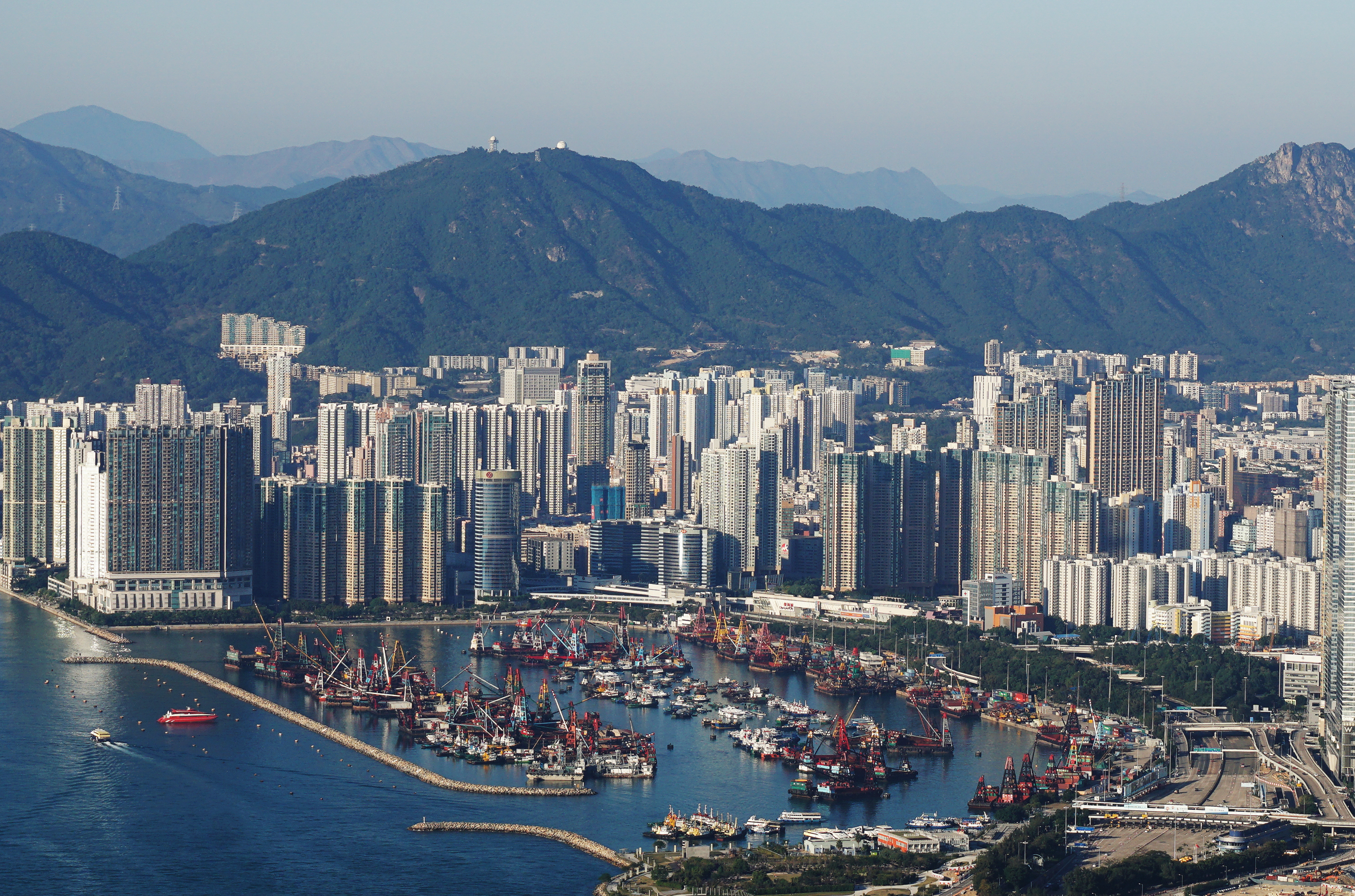 Tai Kok Tsui in Hong Kong.